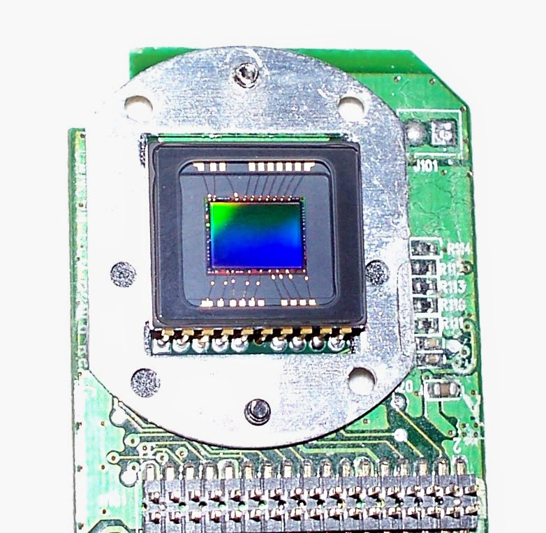 A close up of a 2.1 MP CCD from a HP camera.